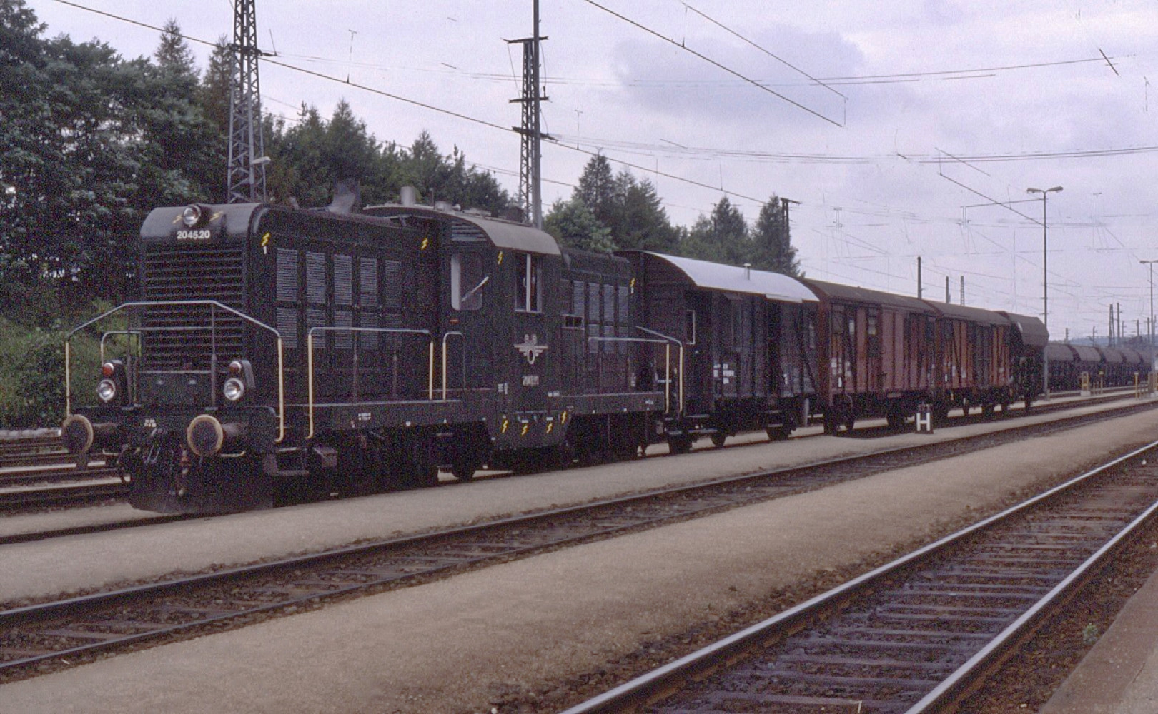 Preserved 2045.20 with a short freight train at Sigmundsherberg station.